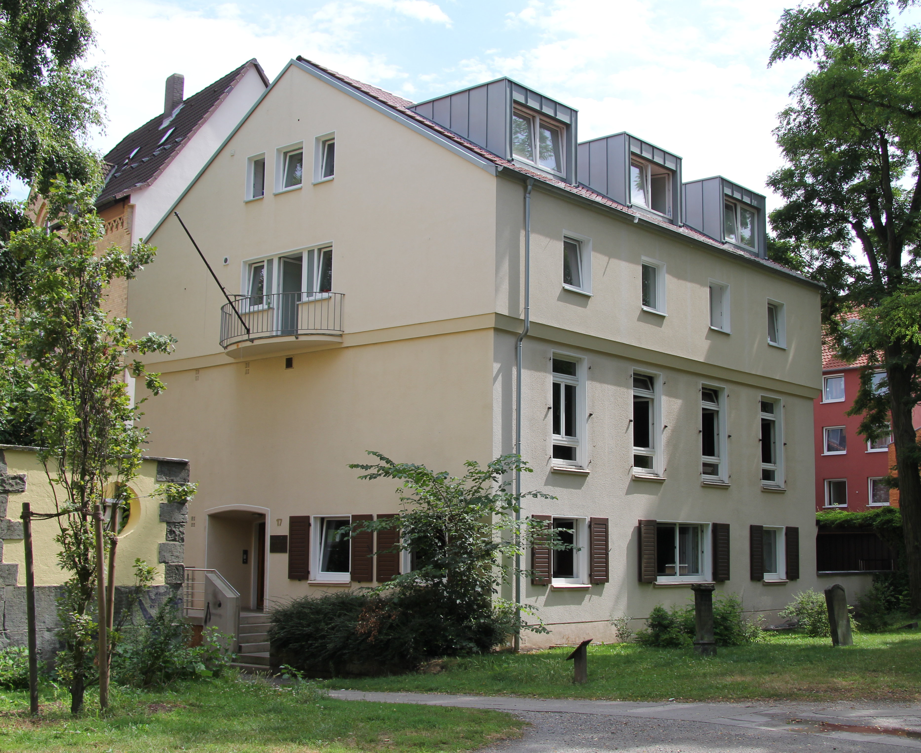 House of student fraternity Corps Hannovera Hannover, Theodorstrasse 17 in Hanover/Germany